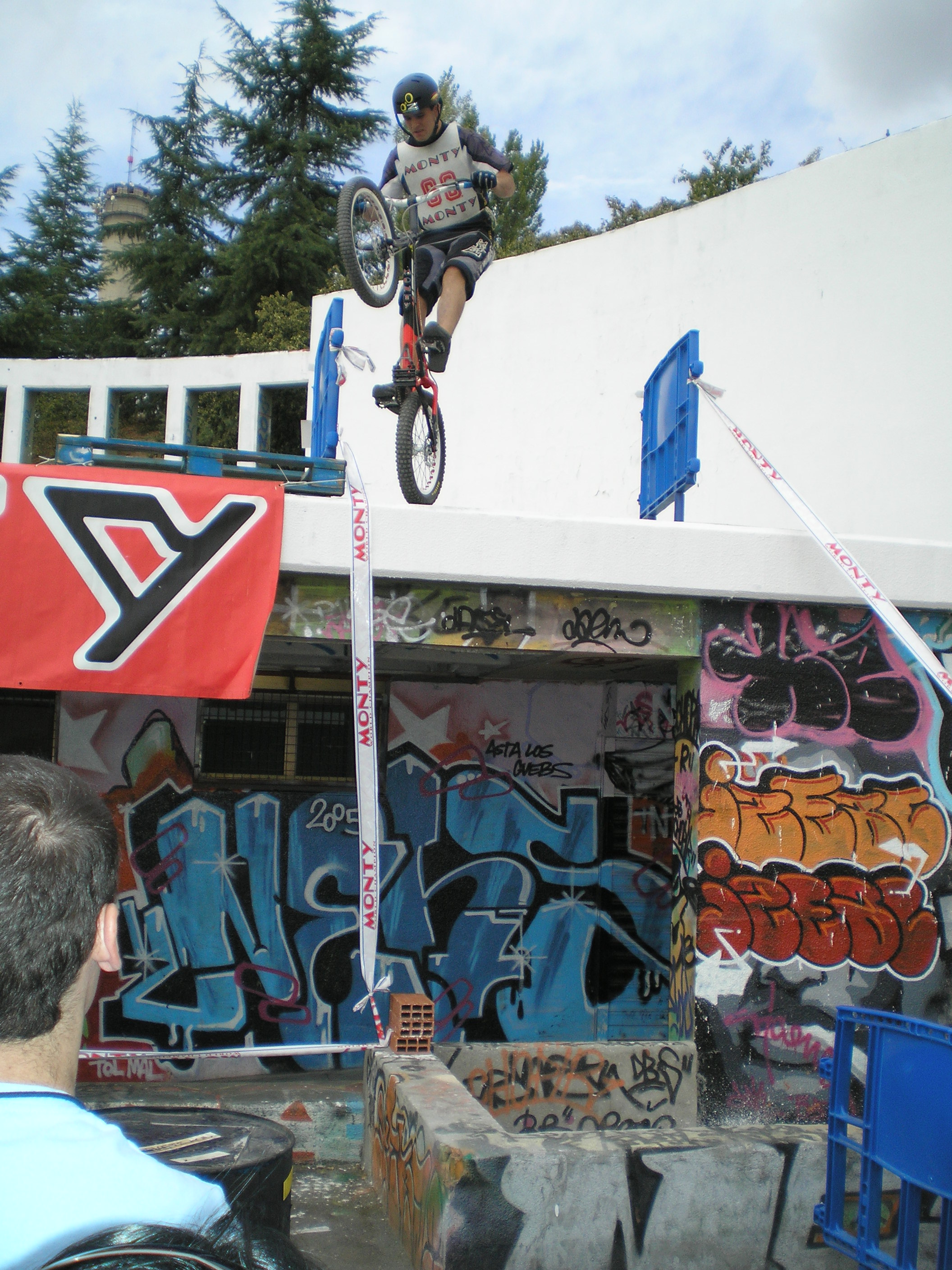 Trial hopping in Festibike 2006 in Tres Cantos, Madrid.